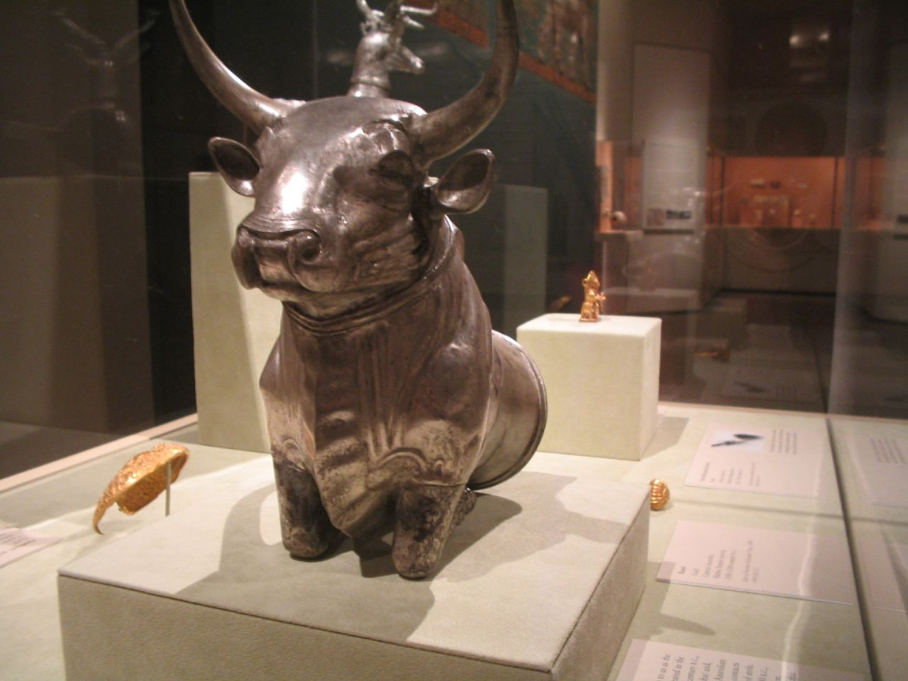 An ancient Hittite rhyton on display at the Metropolitan Museum of Art, New York.